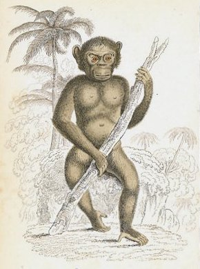 Painting by Sir William Jardine